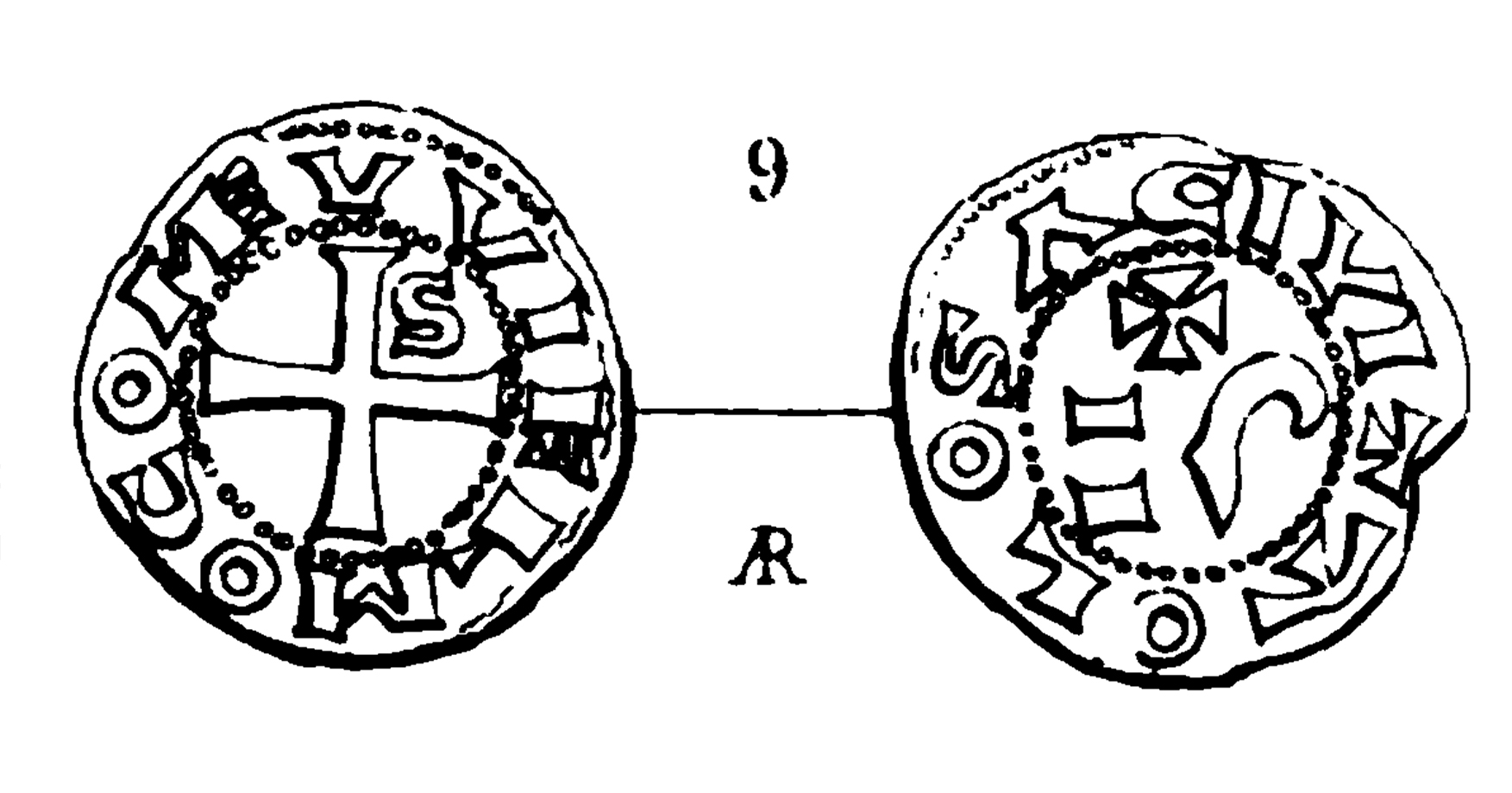 Coins of William IV, count of Toulouse